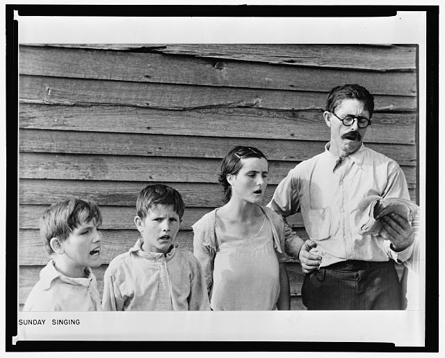 TITLE: Sunday singing CALL NUMBER: LOT 991, vol. 2 [item] [P&P] REPRODUCTION NUMBER: LC-USZ62-13830 (b&w film copy neg.) RIGHTS INFORMATION: No known restrictions on publication. SUMMARY: Photograph shows Frank Tengle, an Alabama sharecropper, and family singing hymns. MEDIUM: 1 photographic print. CREATED/PUBLISHED: [1935 or 1936] CREATOR: Evans, Walker, 1903-1975, photographer. NOTES: In album: The house and the family of Frank Tengle near Moundville, Hale County, Ala. By Walker Evans for the U.S. Resettlement Administration. SUBJECTS: Families--Alabama--1930-1940. Sharecroppers--Alabama--1930-1940. Sabbaths--Alabama--1930-1940. Singing--Alabama--1930-1940. FORMAT: Photographic prints 1930-1940. REPOSITORY: Library of Congress Prints and Photographs Division Washington, D.C. 20540 USA DIGITAL ID: (digital file from b&w film copy neg.) cph 3a16117 CONTROL #: 2007675777